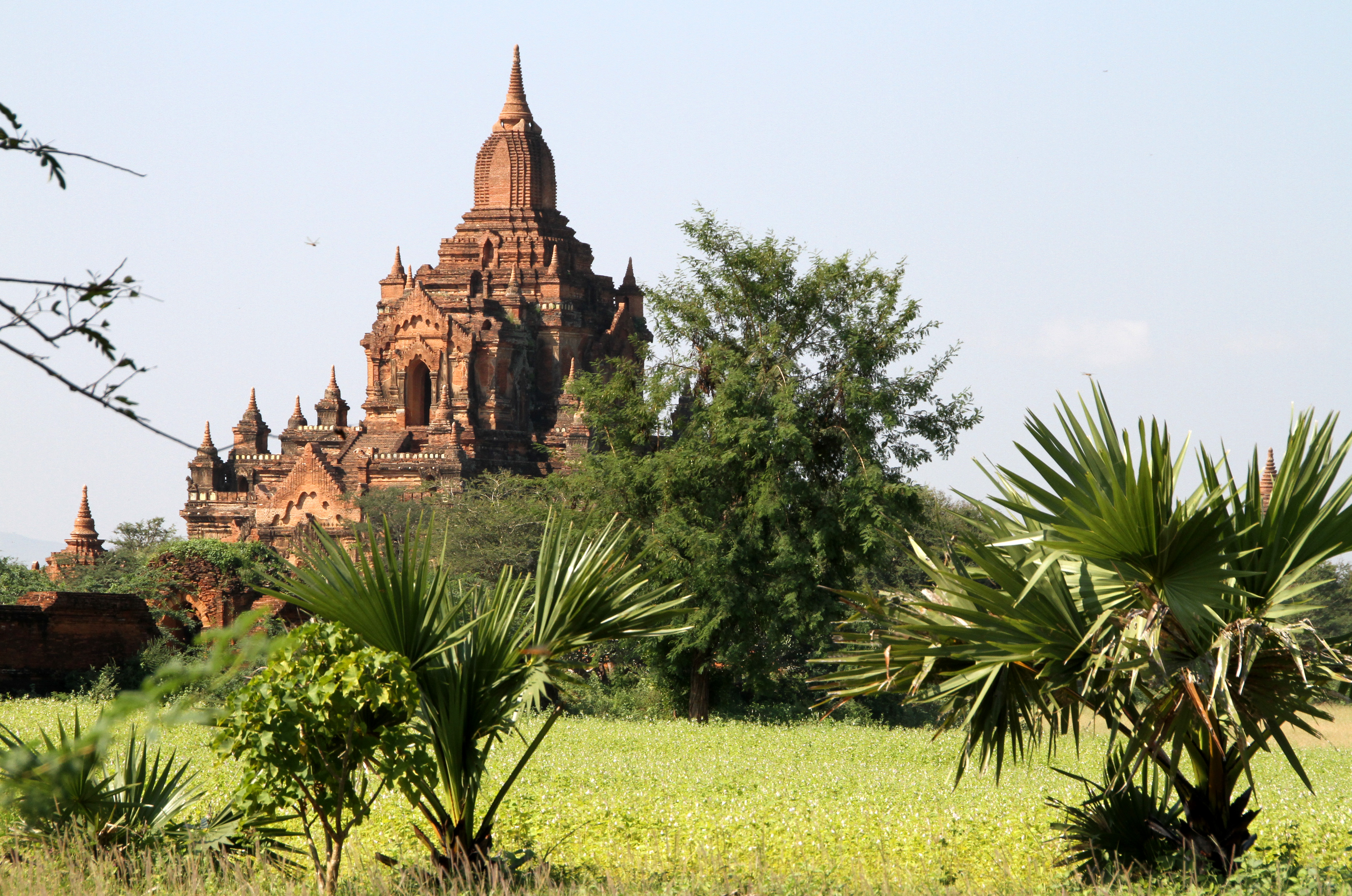 Tayokpye temple in Bagan, Myanmar.